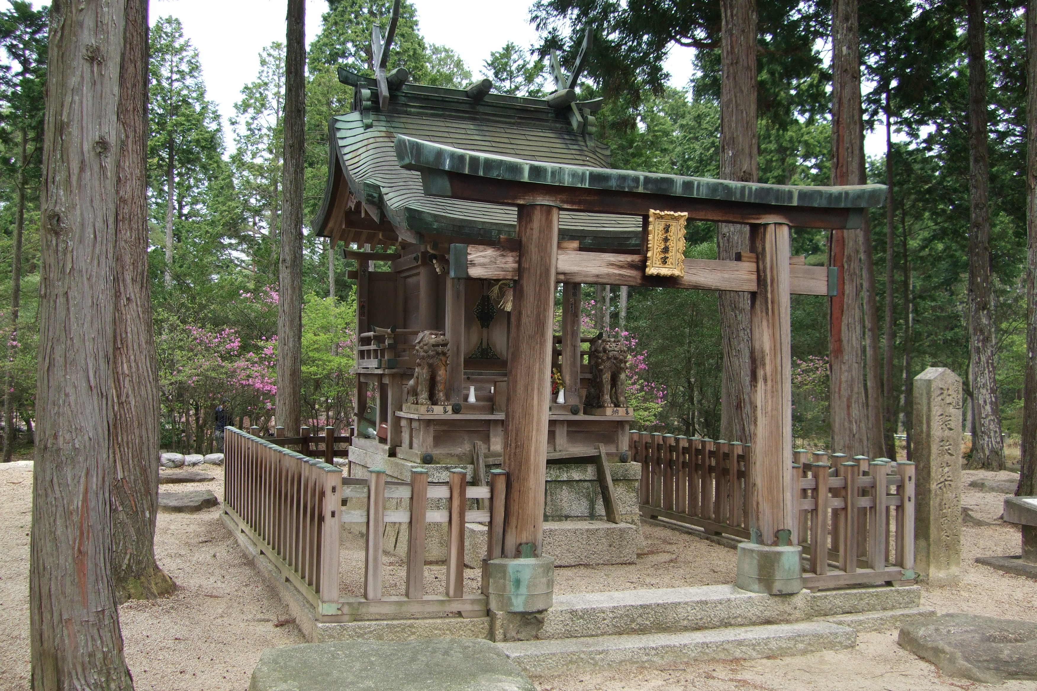 Shigarakinomiya in Koka, Shiga Prefecture, Japan